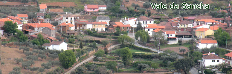 aldeia de vale da sancha